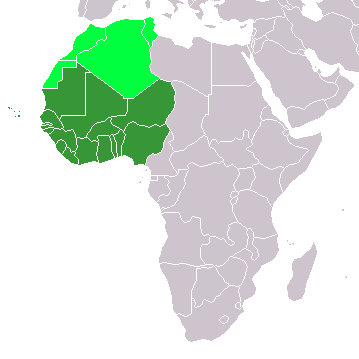 Map: Africa – Western Africa: dark green: UN subregion light green: Maghreb (Northwest Africa) – geographic